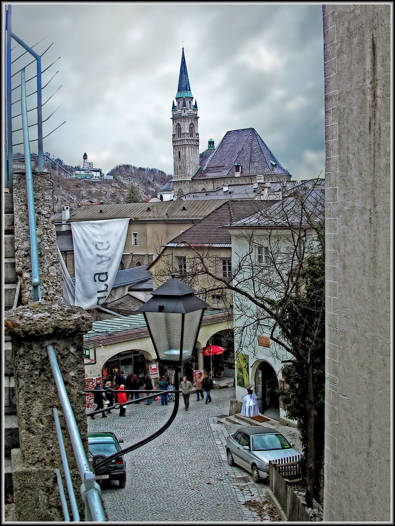 Festungsgasse, Salzburg, Austria